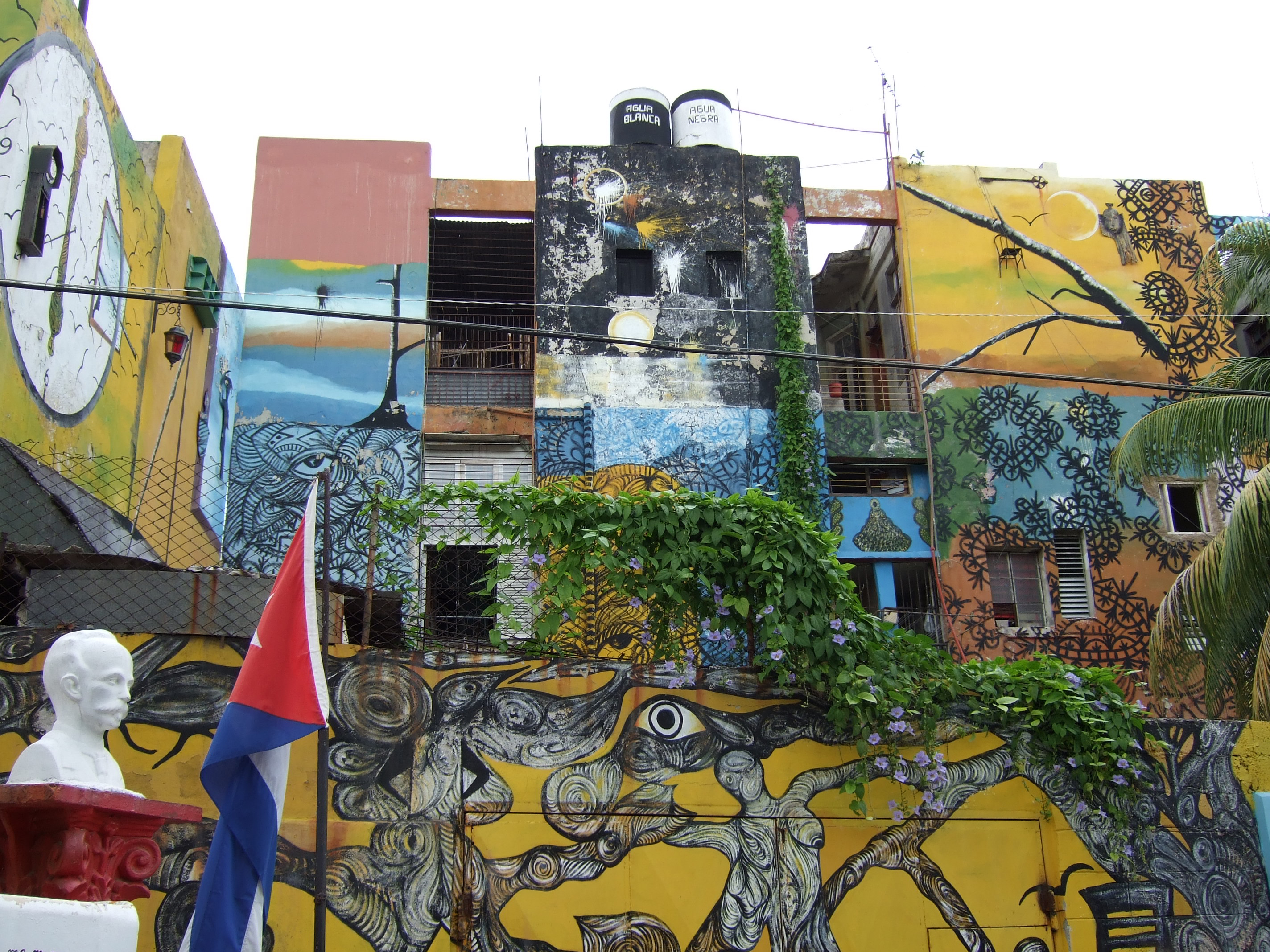 Detail from Callejon de Hamel, Havana, Cuba